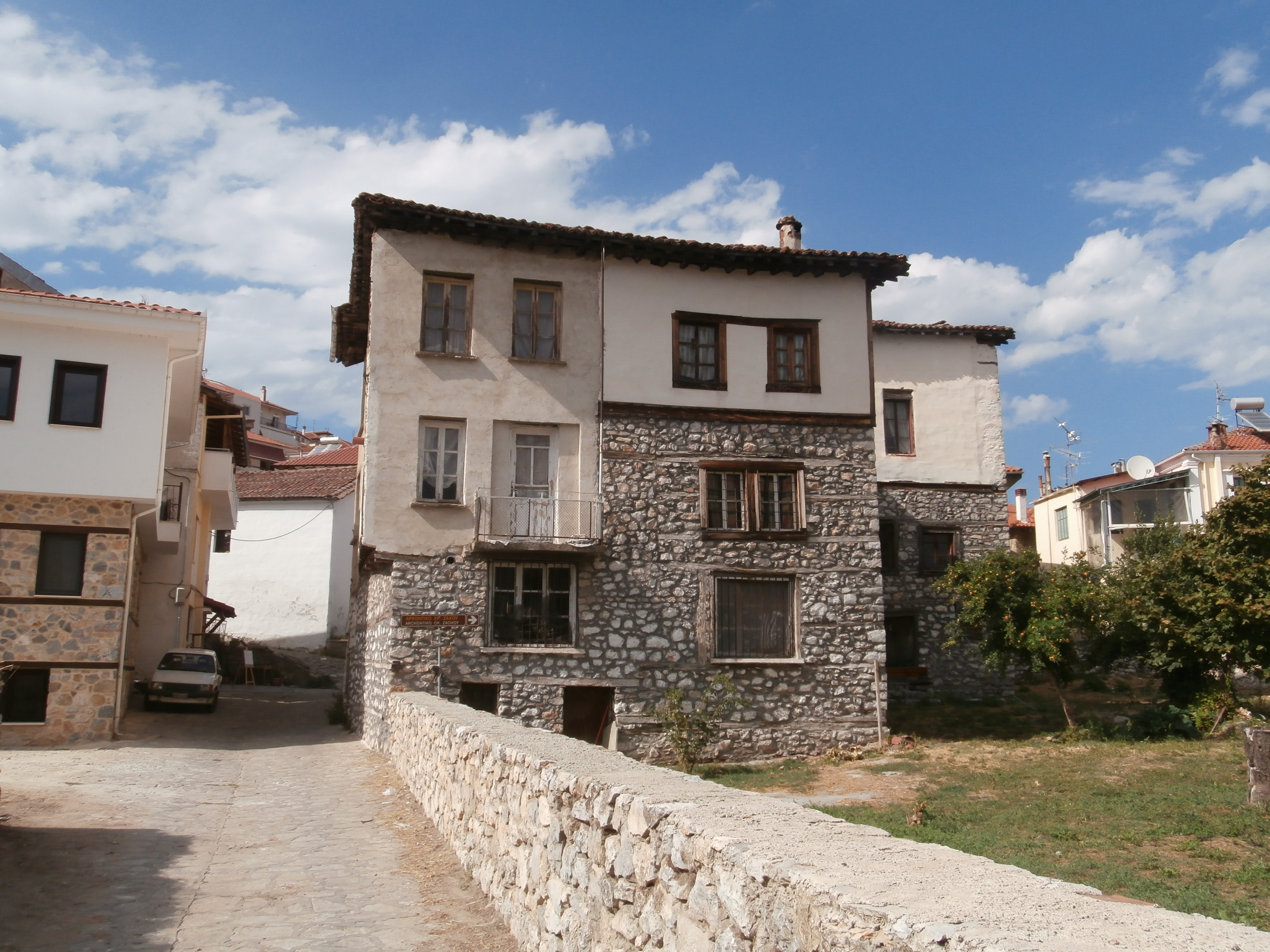 A mansion in Kastoria